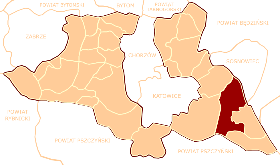 Map of city of Mysłowice (1946) in Katowice County, Silesian Voivodeship